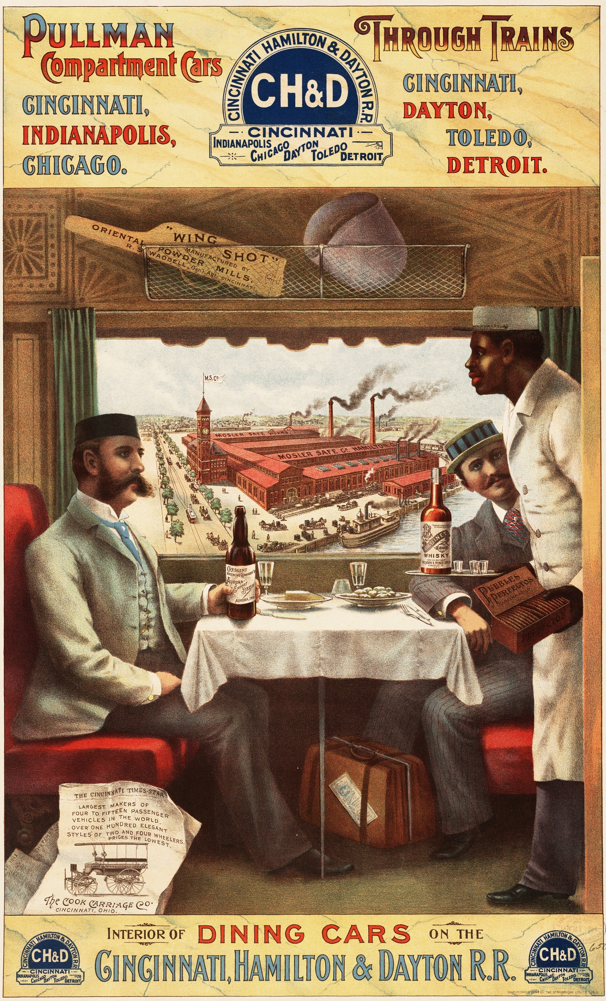 Color lithograph advertisement showing the interior of a Pullman dining-car belonging to the Cincinnati, Hamilton and Dayton Railway, 1894, with two men seated at a table being served by an African American porter. Mosler Safe Works, Hamilton, Ohio, is busy preparing safes for delivery at the background. Exhibited at "American Treasures of the Library of Congress", 2005.